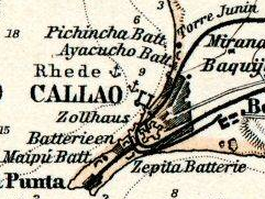 Baterías del Callao en 1891